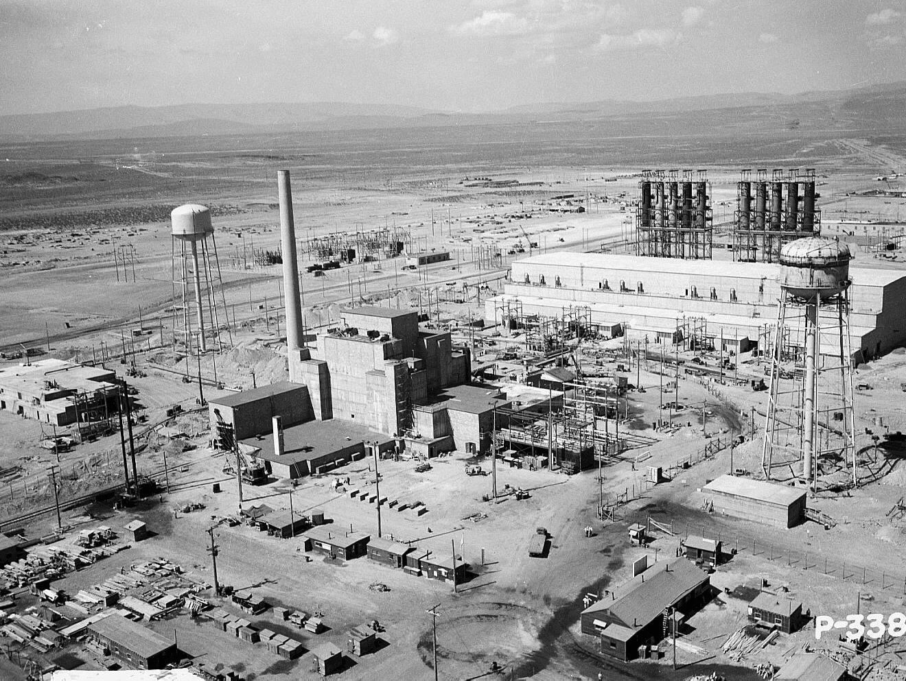 "100-B REACTOR AND WATER TREATMENT AREA." B Reactor is at center.